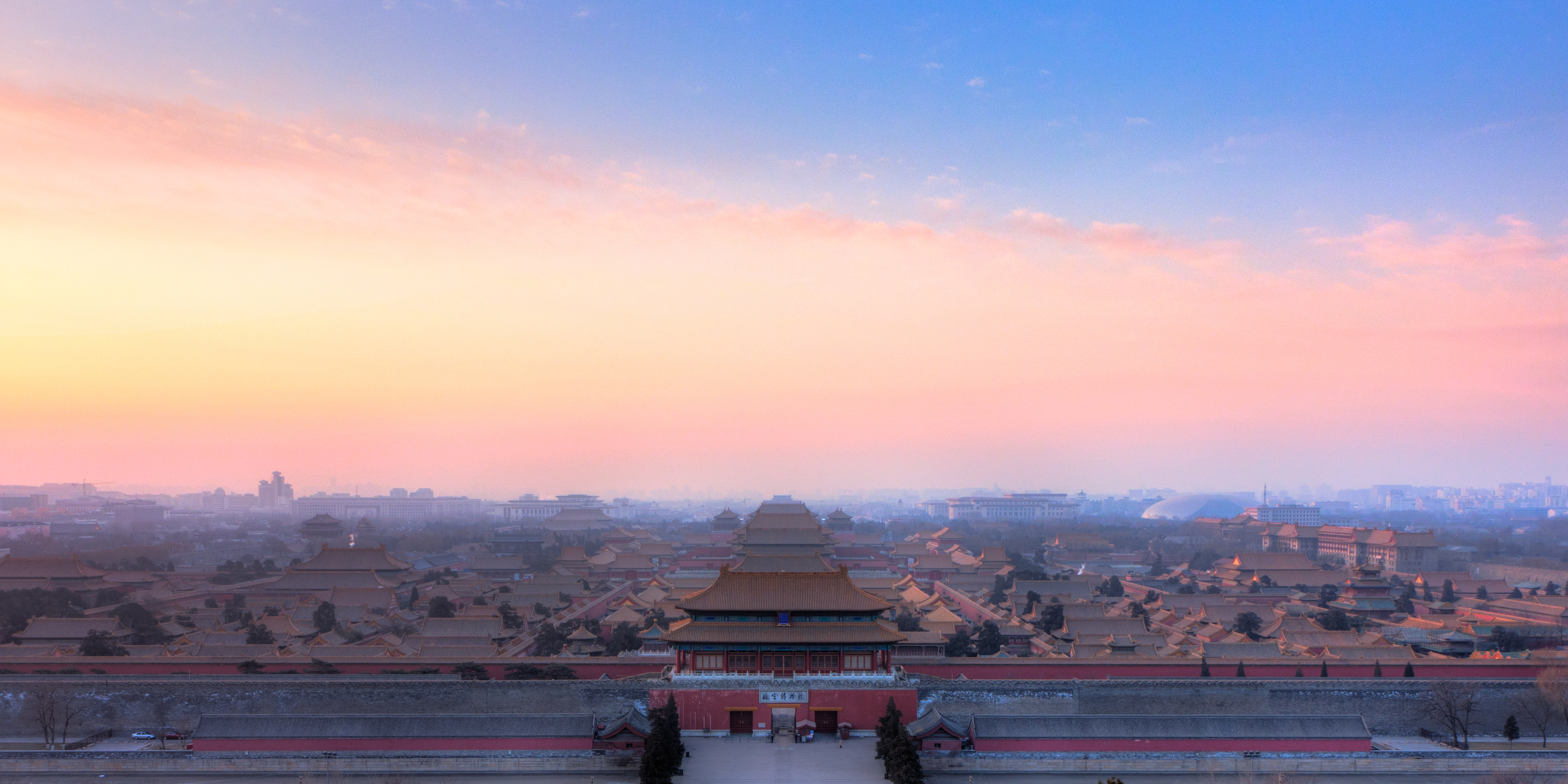 A (HDR-) photograph shot from the Jingshan Park (aka Coal Hill or Prospect Hill).